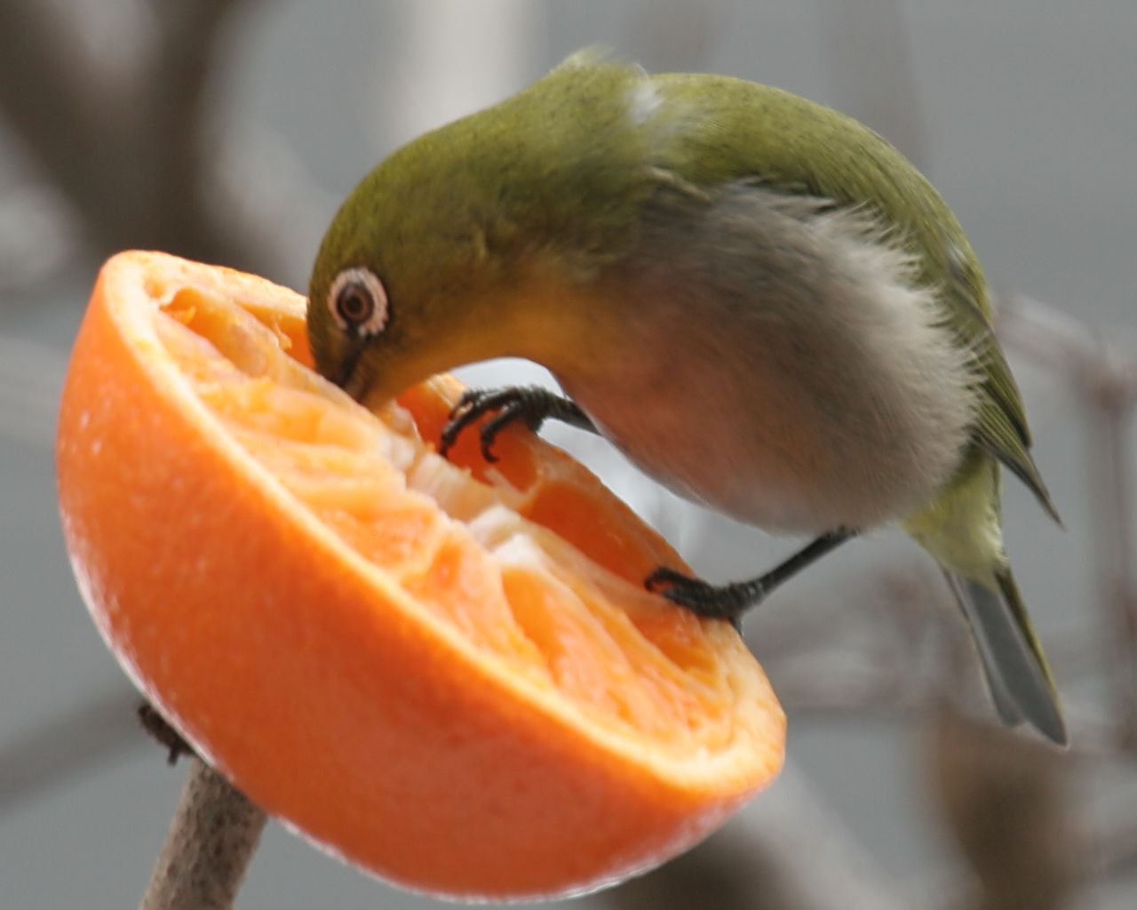 Japanese White-eye, Jan. 2006, Yokohama JAPAN ; Japanese description:メジロ 2006年1月 神奈川県横浜市 (投稿者自身による撮影)